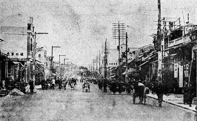 Wing Hon Road, now Beijing Rd., in Canton, Kwangtung, China.